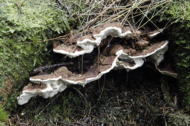 Heterobasidion annosum from Commanster, Belgium. The determination of the species shown in this picture has been verified.